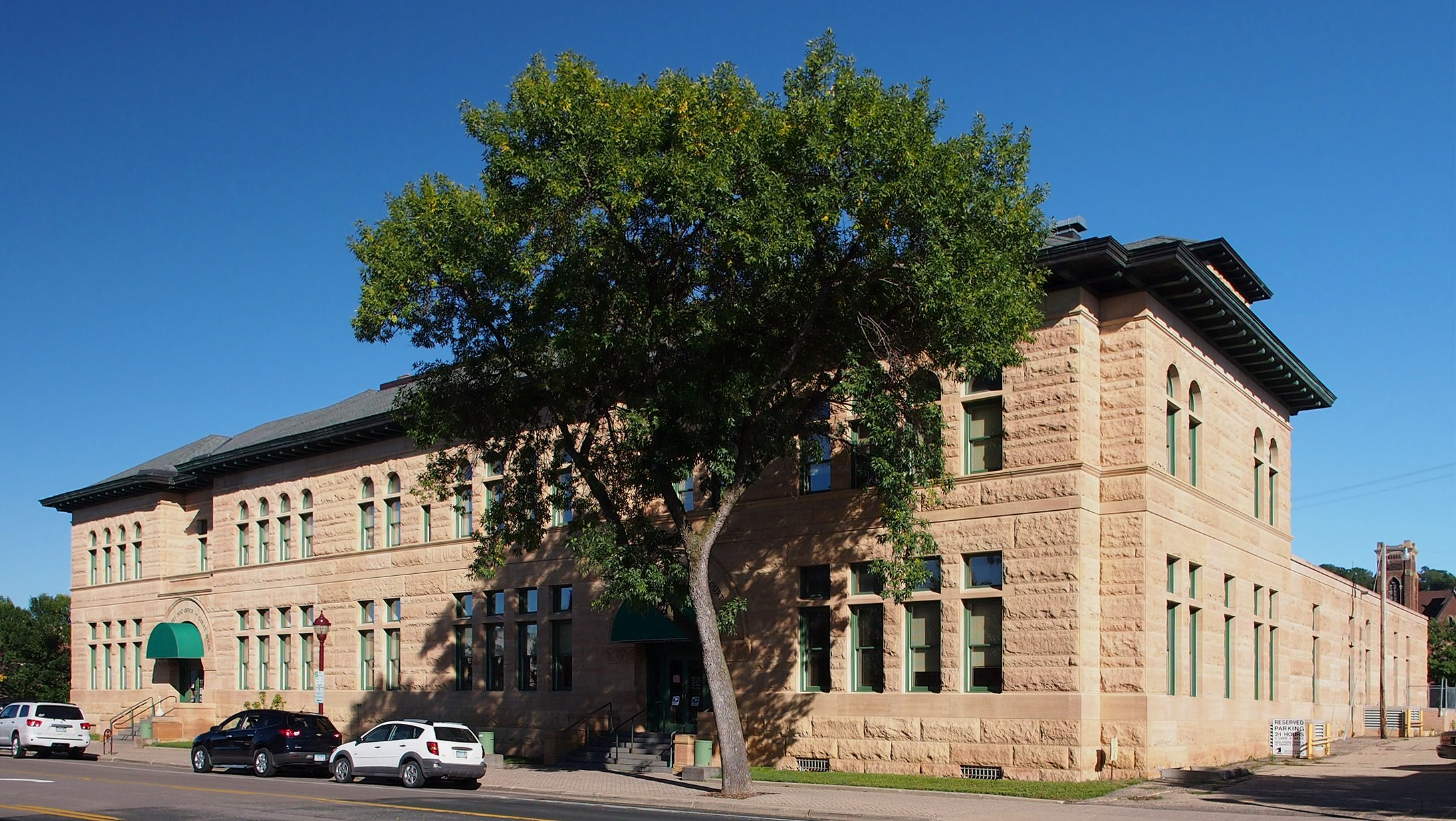 Federal Courthouse & Post Office, 401 S 2nd St, Mankato, Minnesota, USA. Viewed from the west.